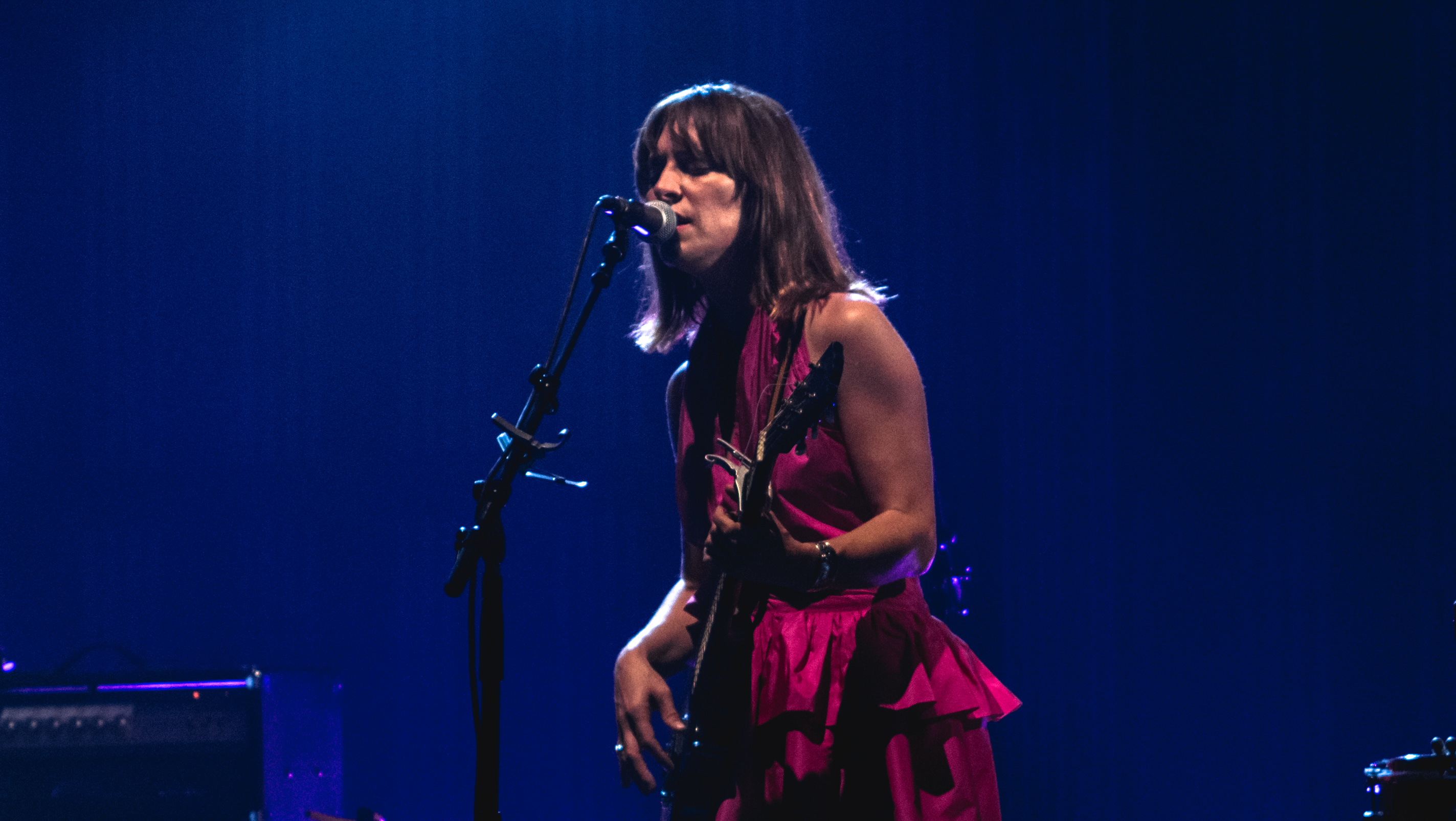 Leslie Feist performing in the Shepherd's Bush Empire in July 2017.